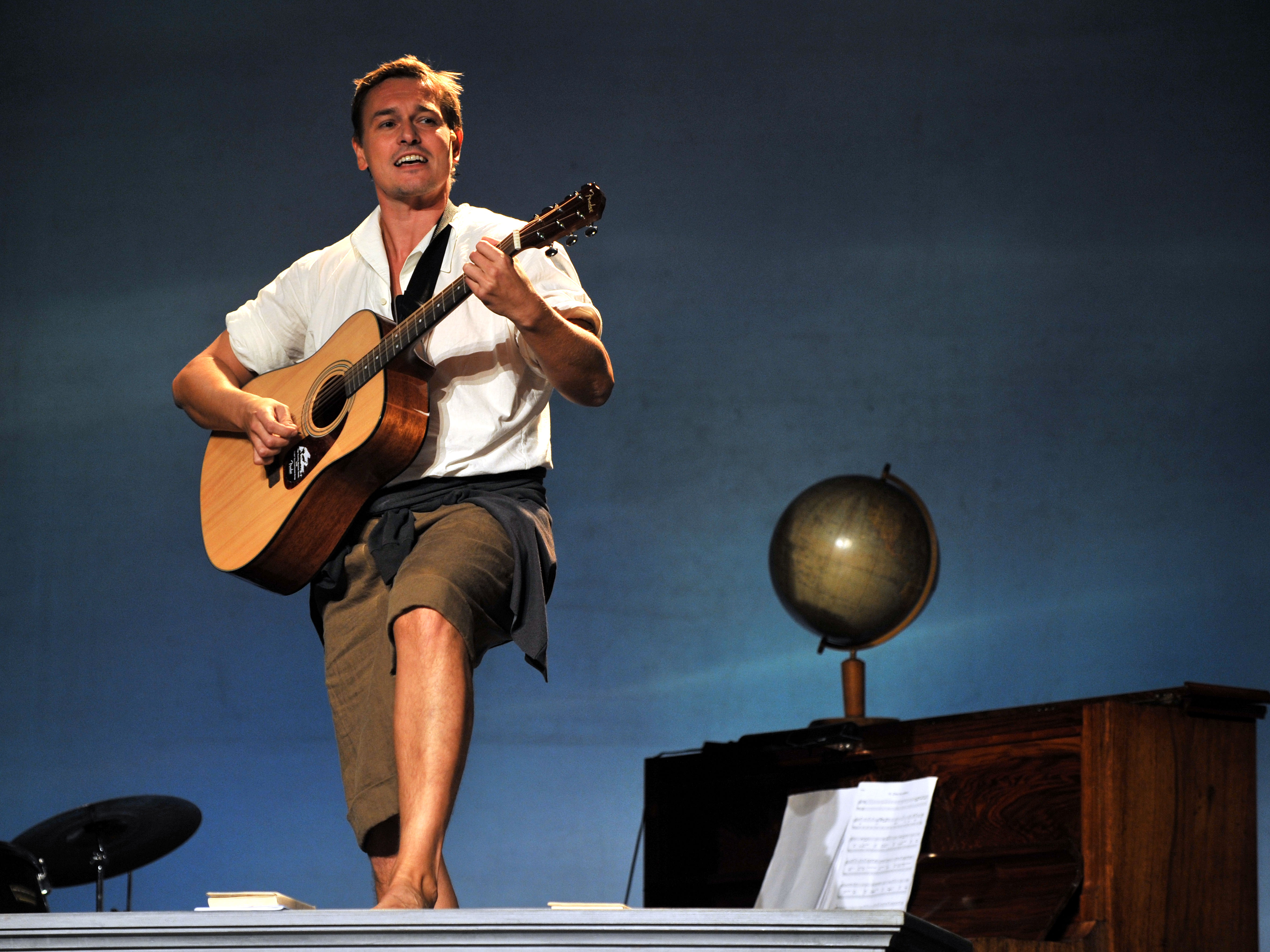 Petr Štěpán